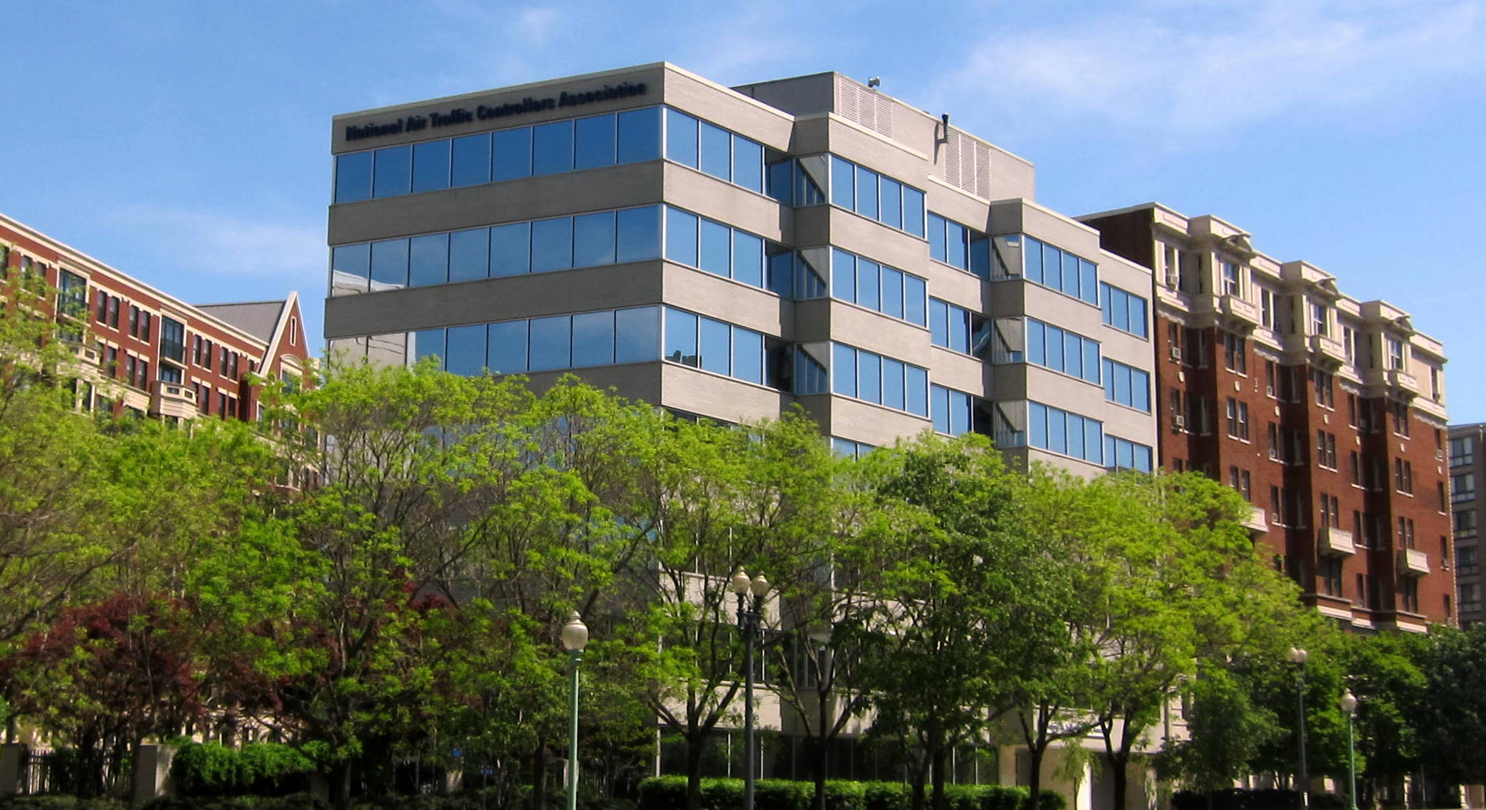 Headquarters of the National Air Traffic Controllers Association, National Gay and Lesbian Task Force, National Stonewall Democrats, National Center for Transgender Equality, Jobs with Justice, and the Woodhull Freedom Foundation & Federation, located at 1325 Massachusetts Avenue, N.W., in the Logan Circle neighborhood of Washington, D.C. This seven-story Modernist building was constructed in 1965, and designed by Vlastimil Koubek.